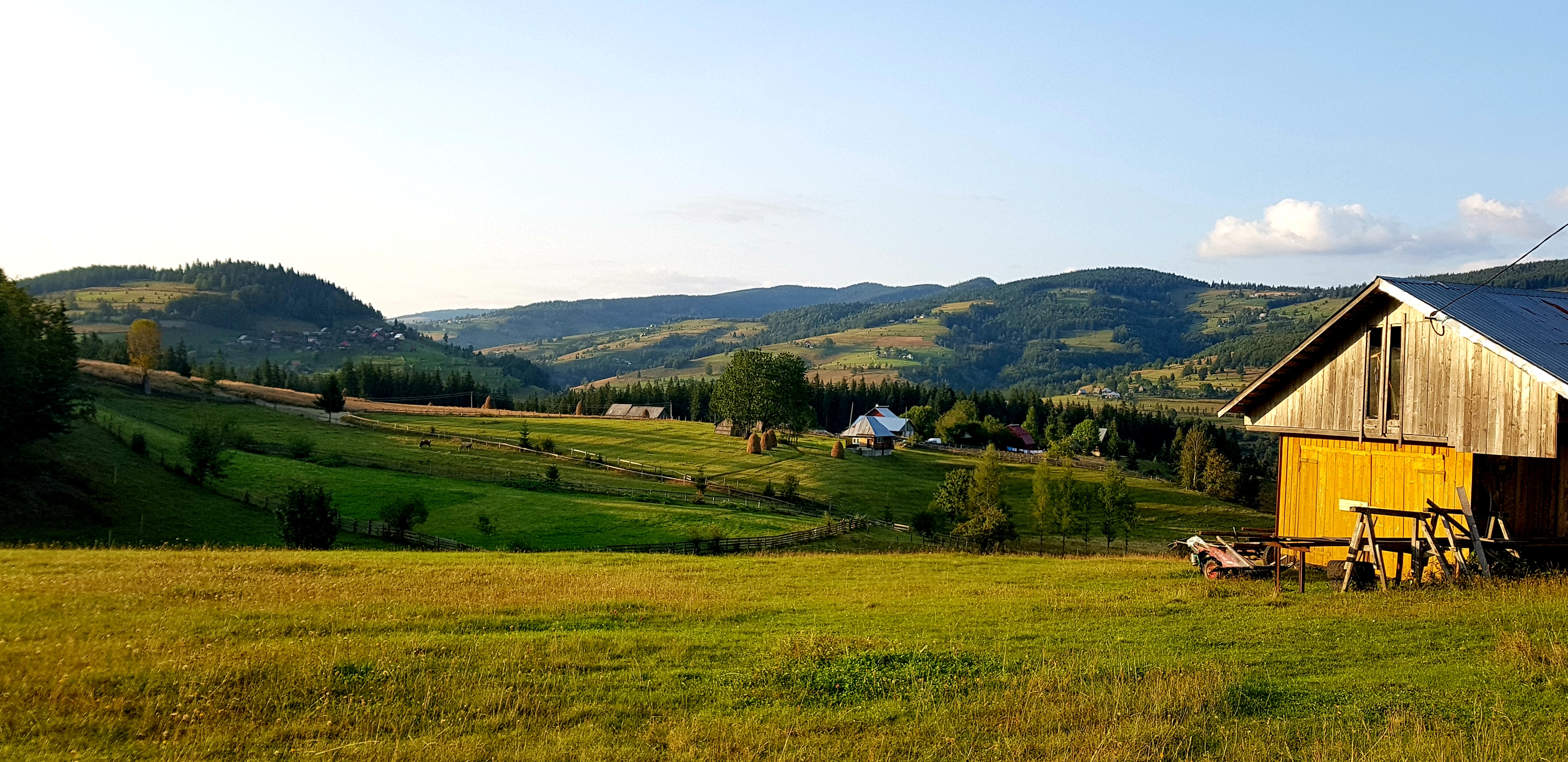 Arieșeni farmhouse near sunset